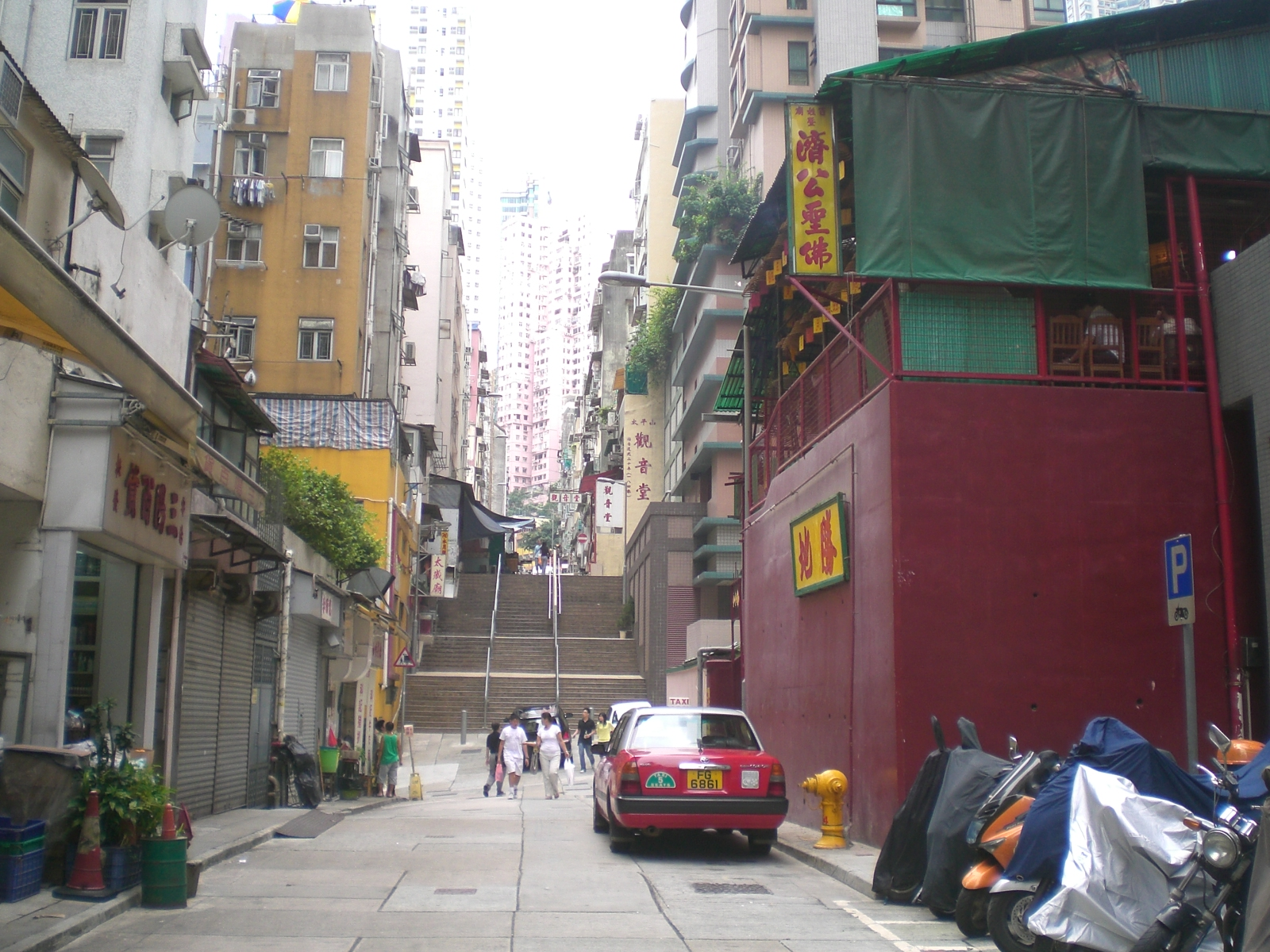 太平山街廣福義祠